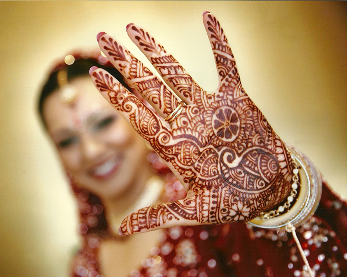 Bridal henna